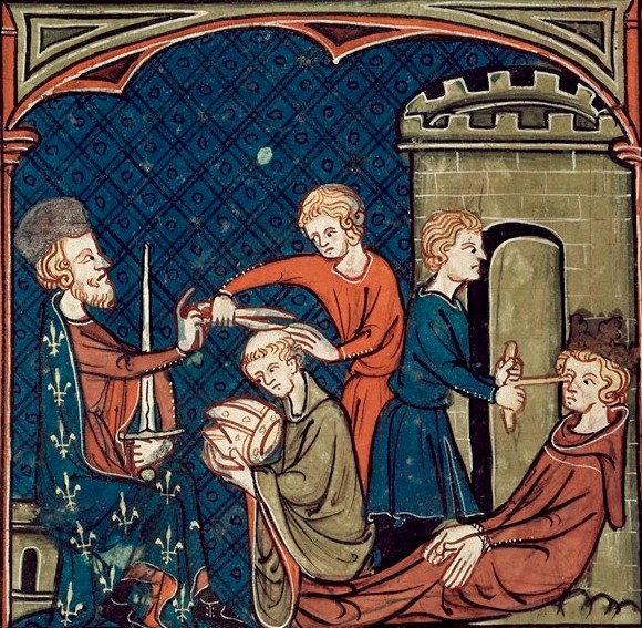 Detail of a miniature of Louis having a prelate degraded and shorn, and Bernard being blinded